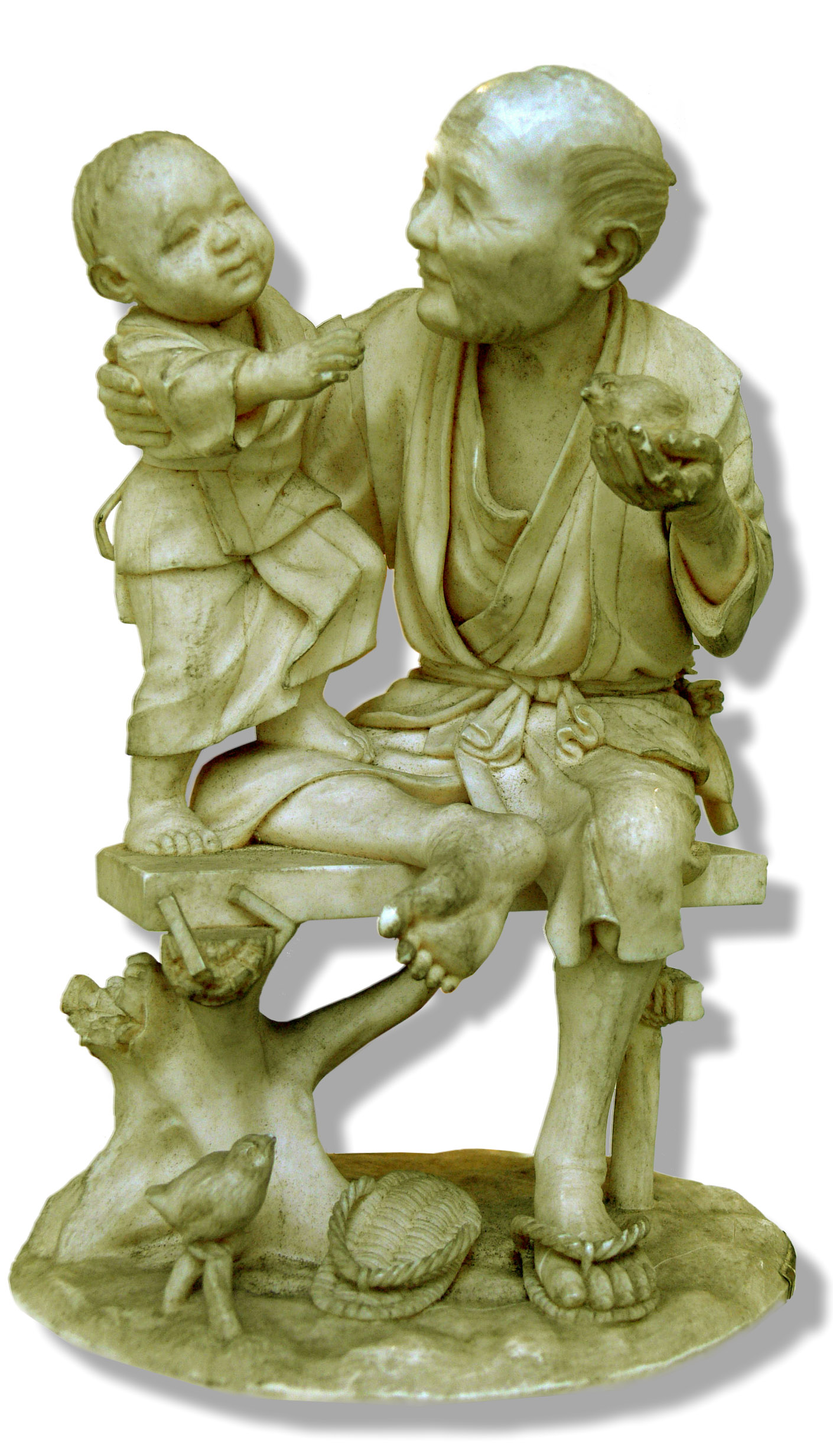 Ivory Sculpture (anonymous), Musée d'Art et d'Industrie de Roubaix